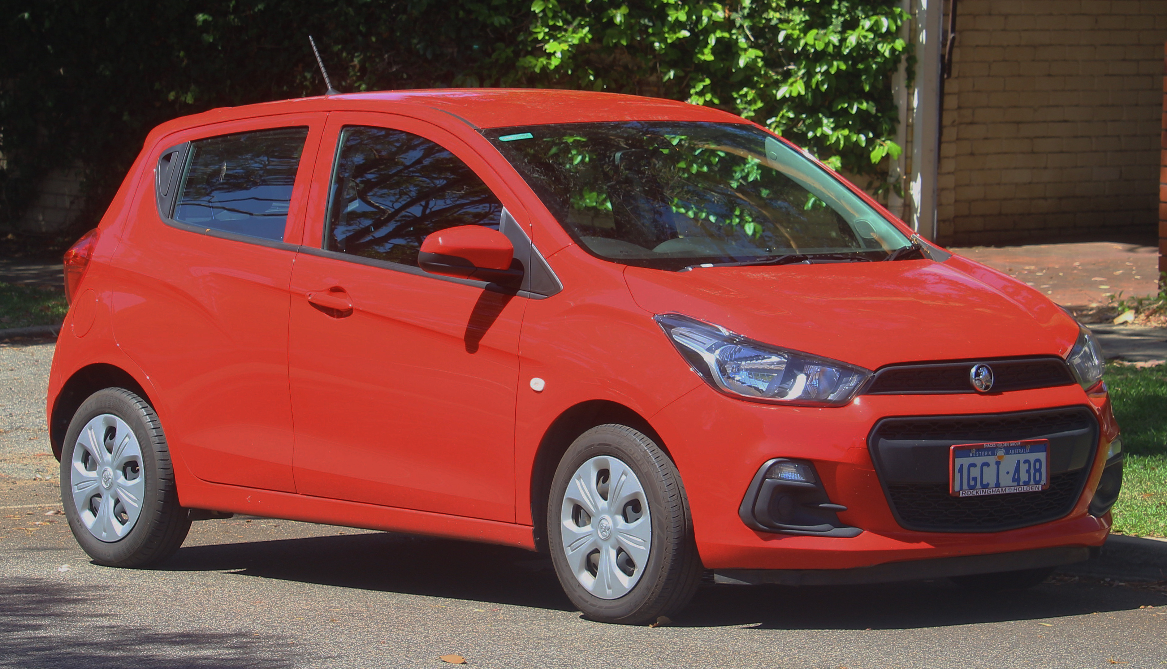 2016 Holden Barina Spark (MP MY17) LS hatchback. Photographed in Shenton Park, Western Australia, Australia.